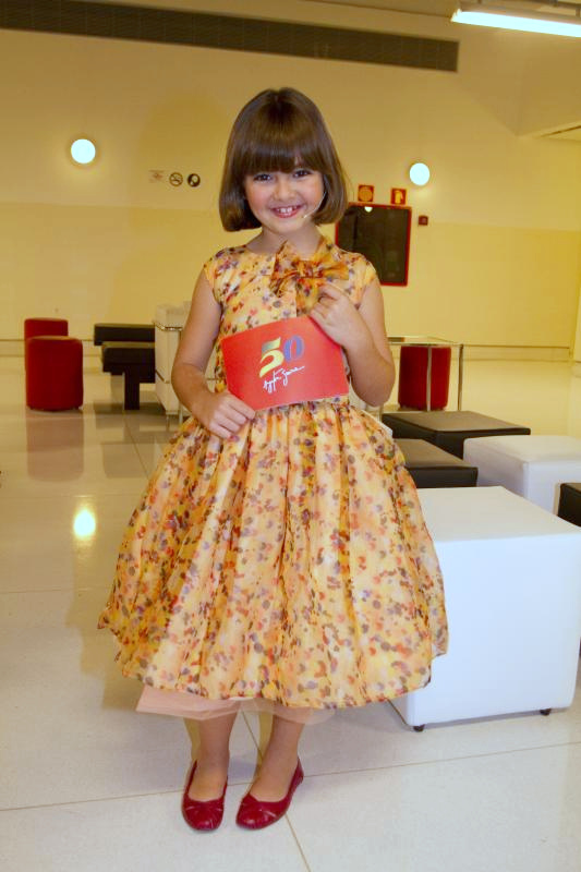 The child actress Klara Castanho.